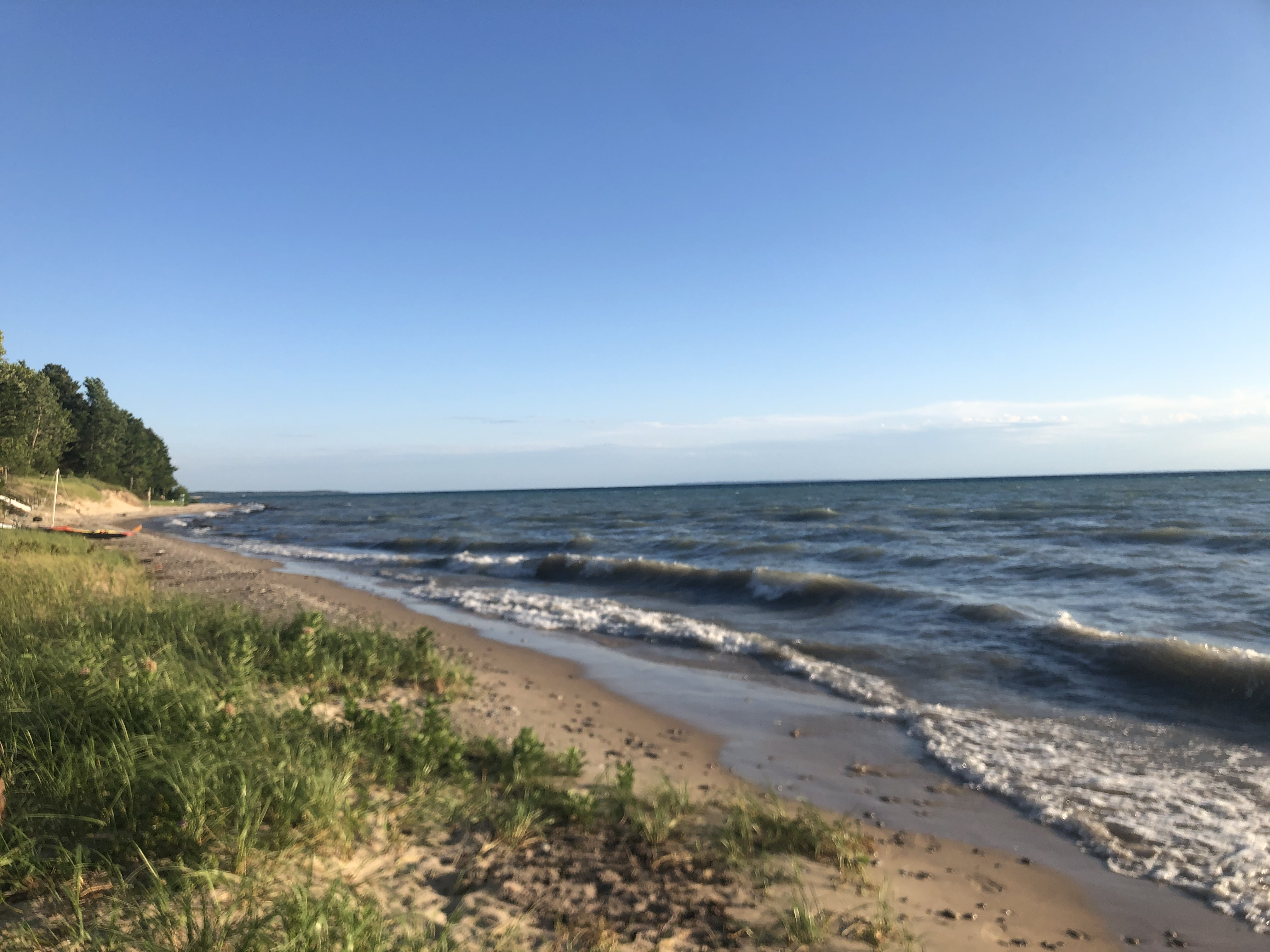 Grand Traverse Bay from Atwood, Michigan, viewing southwest